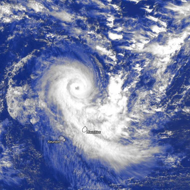 Tropical Cyclone Connie was moving to the southwest in the Indian Ocean east of Madagascar and northwest of Mauritius Island. The storm's winds were at 110 knots.